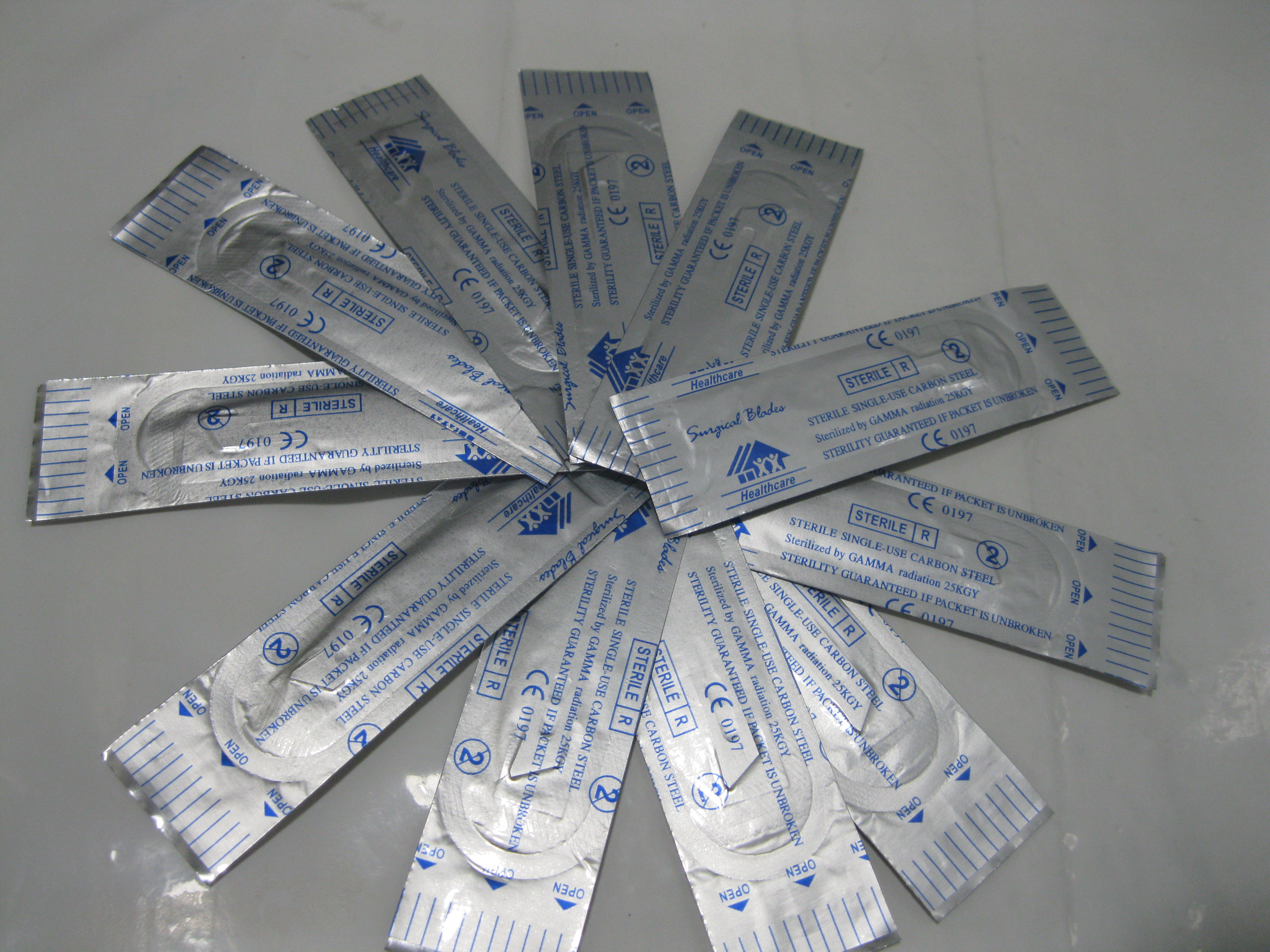 Disposable scalpel blade